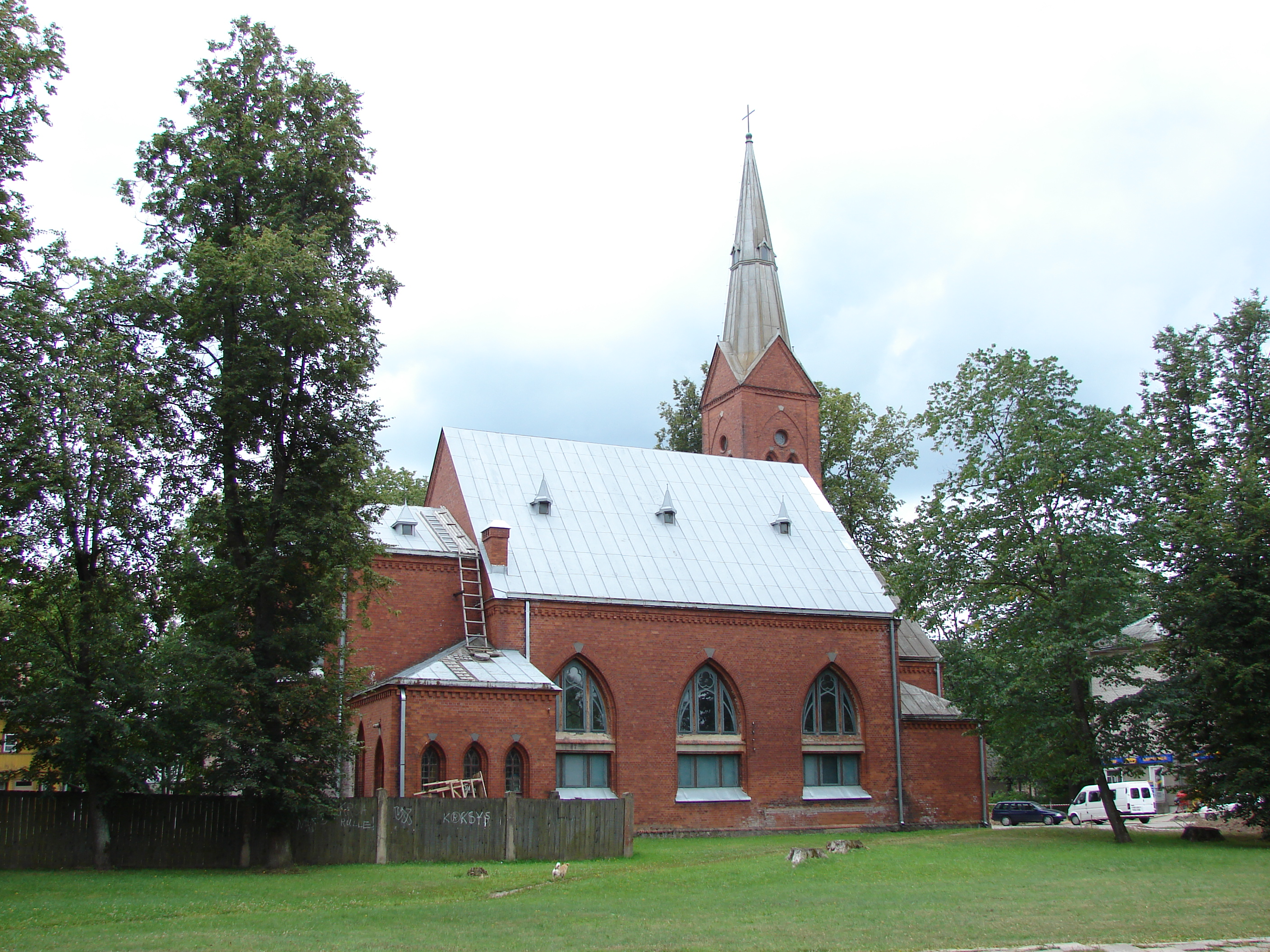 Rēzekne Holy Trinity Evangelical Lutheran ChurchLatviešu: Rēzeknes Sv. Trīsvienības luterāņu baznīca (1938.), Raiņa iela 4, Rēzekne